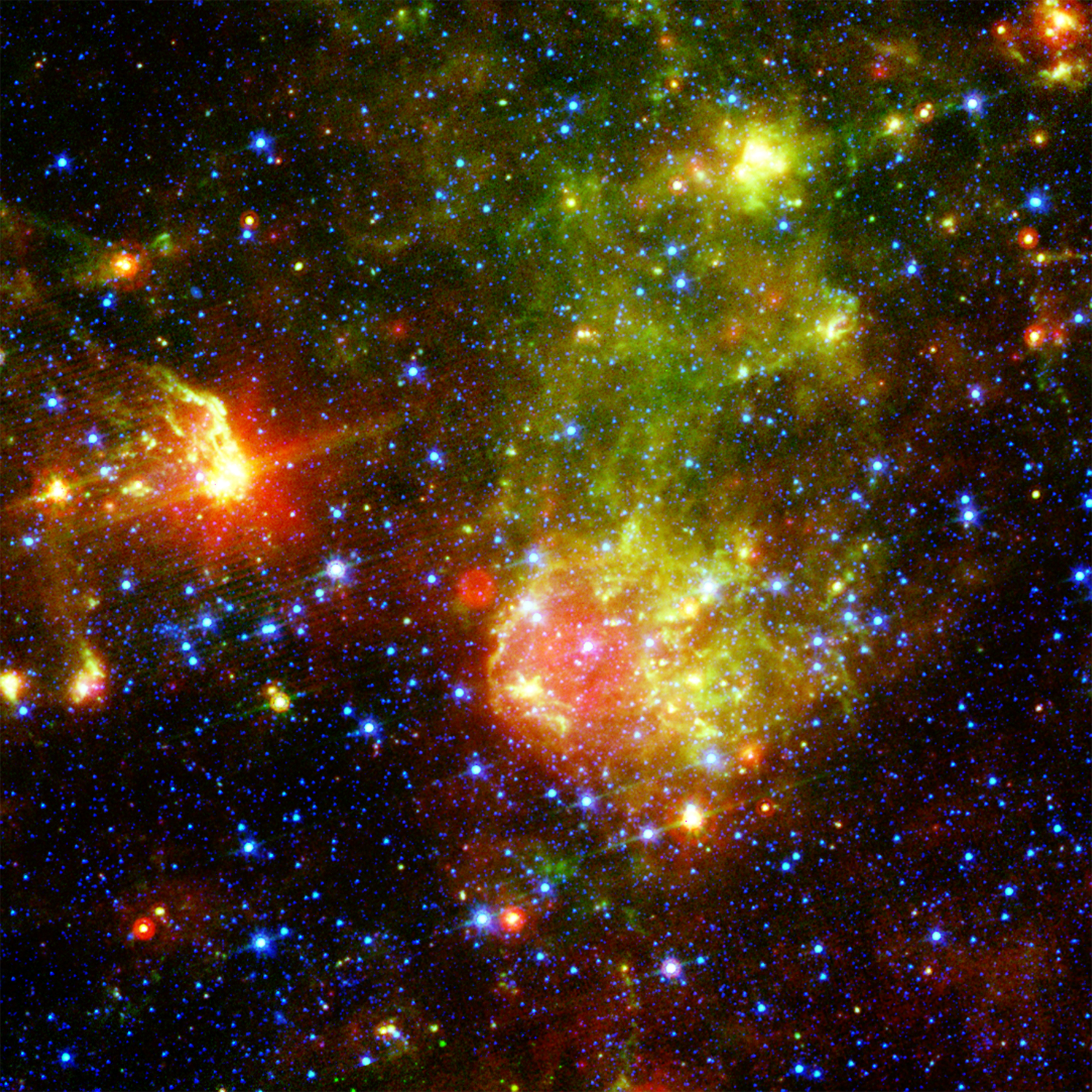 This image of the Small Magellanic Cloud shows the HII regions N76 on the right and N78 on the left. Between them is the supernova remnant 1E0102.2-7219, the small red circle. Towards the top right is N75. The image shows glowing dust grains in three wavelengths of infrared radiation: 24 microns (red) measured by the multiband imaging photometer aboard NASA's Spitzer Space Telescope; and 8.0 microns (green) and 3.6 microns (blue) measured by Spitzer's infrared array camera. The red bubble is a dust envelope around the supernova remnant E0102, which is being heated by the shock wave created in the explosion of the remnant's massive progenitor star some 1,000 years ago. Most of the blue stars are in the Small Magellanic Cloud, though some are in our own galaxy. The Wolf-Rayet binary AB7 sits at the centre of N76, although such a hot star is not the brightest object in this infrared image.